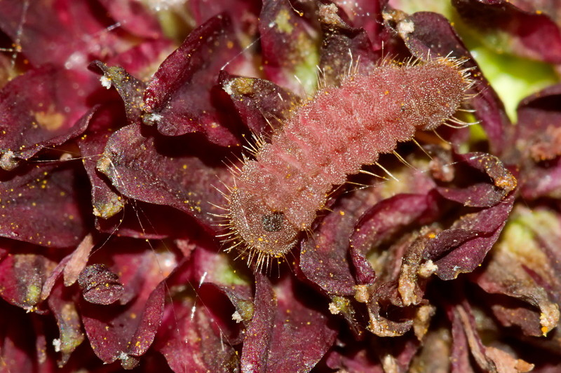 Caterpillar (larvae) of the scarce large blue